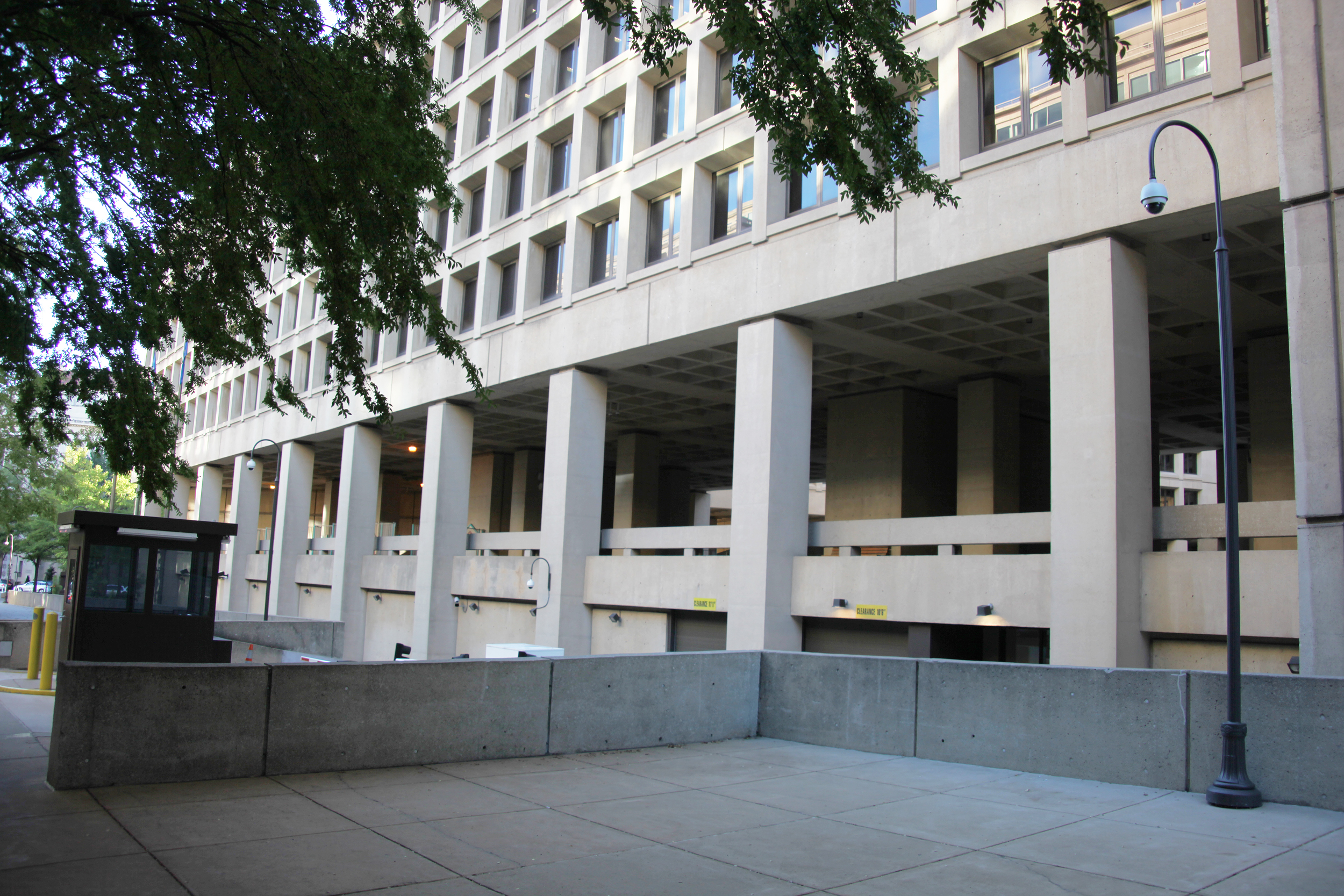 Looking southwest at the closed pedestrian viewing arcade on the 9th Street NW side of the J. Edgar Hoover Building (the headquarters of the Federal Bureau of Investigation) in Washington, D.C., in the United States. The office building, constructed in the Brutalist style, began construction in 1967 and was completed in 1975. Urban planners were concerned that the highly secure building would be a "dead space" on heavily trafficked, historic Pennsylvania Avenue NW. An arcade, accessible by the public on the E Street NW side of the building, ran along the east, south, and west sides of the structure. It was intended that the public would be permitted to stroll along this arcade, view parades from it, and seek refuge from the elements there. The arcade was closed to the public almost as soon as the building opened. The offices fronting the arcade are not used for security reasons. The arcade has been disparaged by architectural critics as dark and forboding.